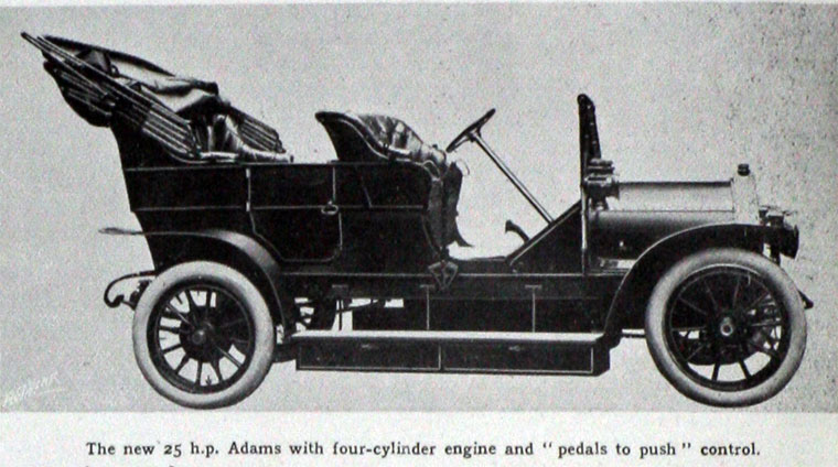 Adams 25 HP touring car (1907)